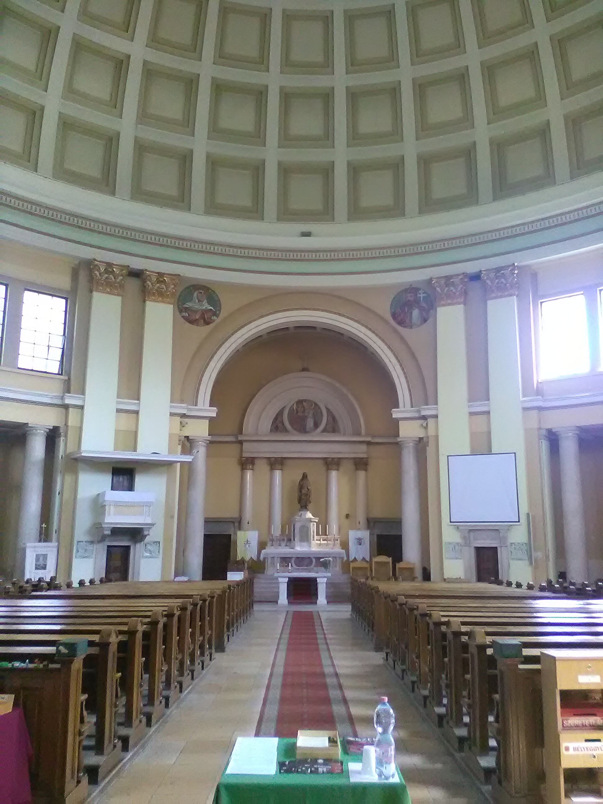 Ottokár Prohászka Church in Székesfehérvár, Hungary. One of the largest dome in the world